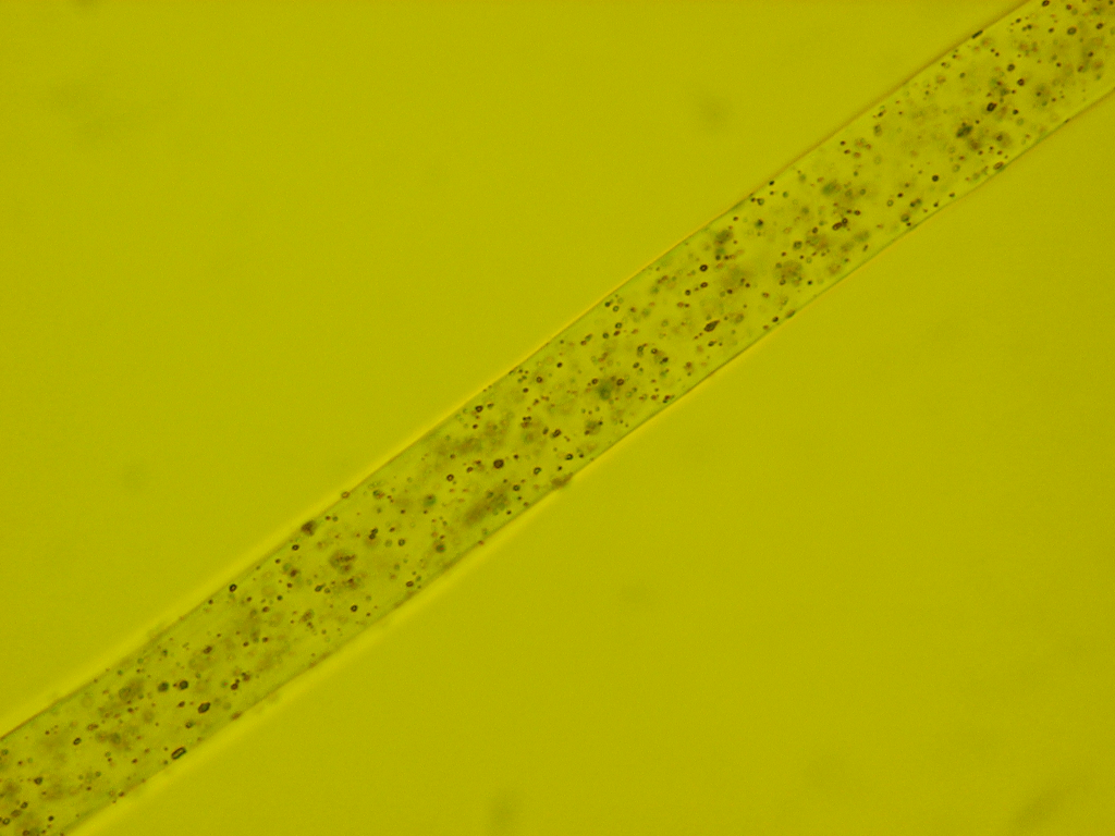 Acrylic 40X Magnification Taken at Strathclyde University Forensic Science Department